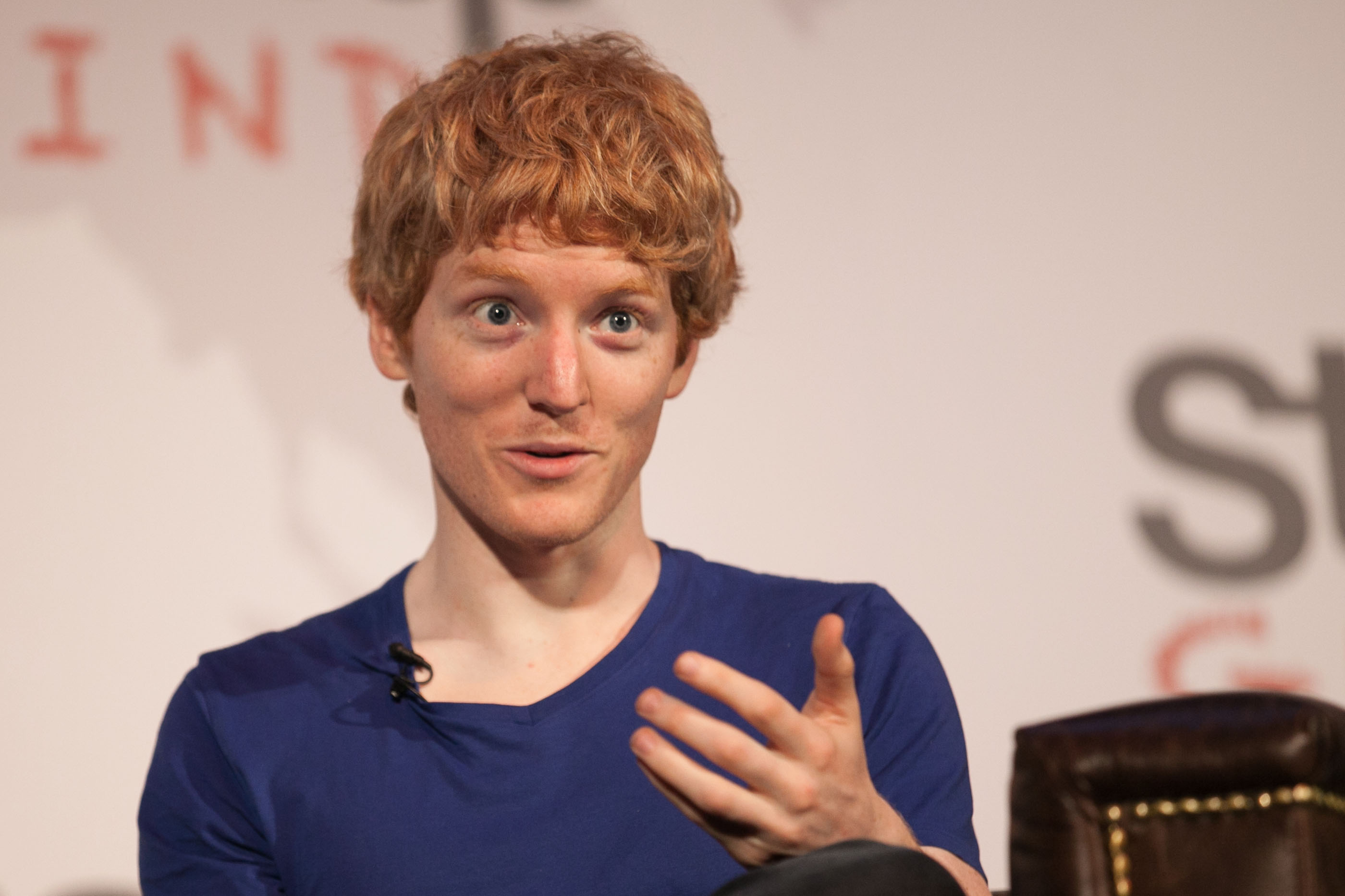 Patrick Collison in 2015